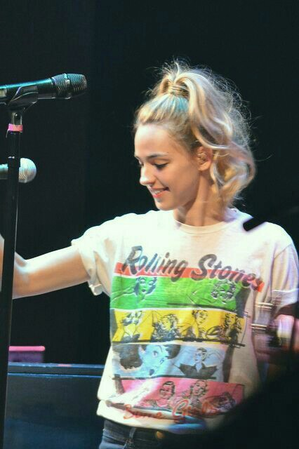 Tarver en un concierto en 2012